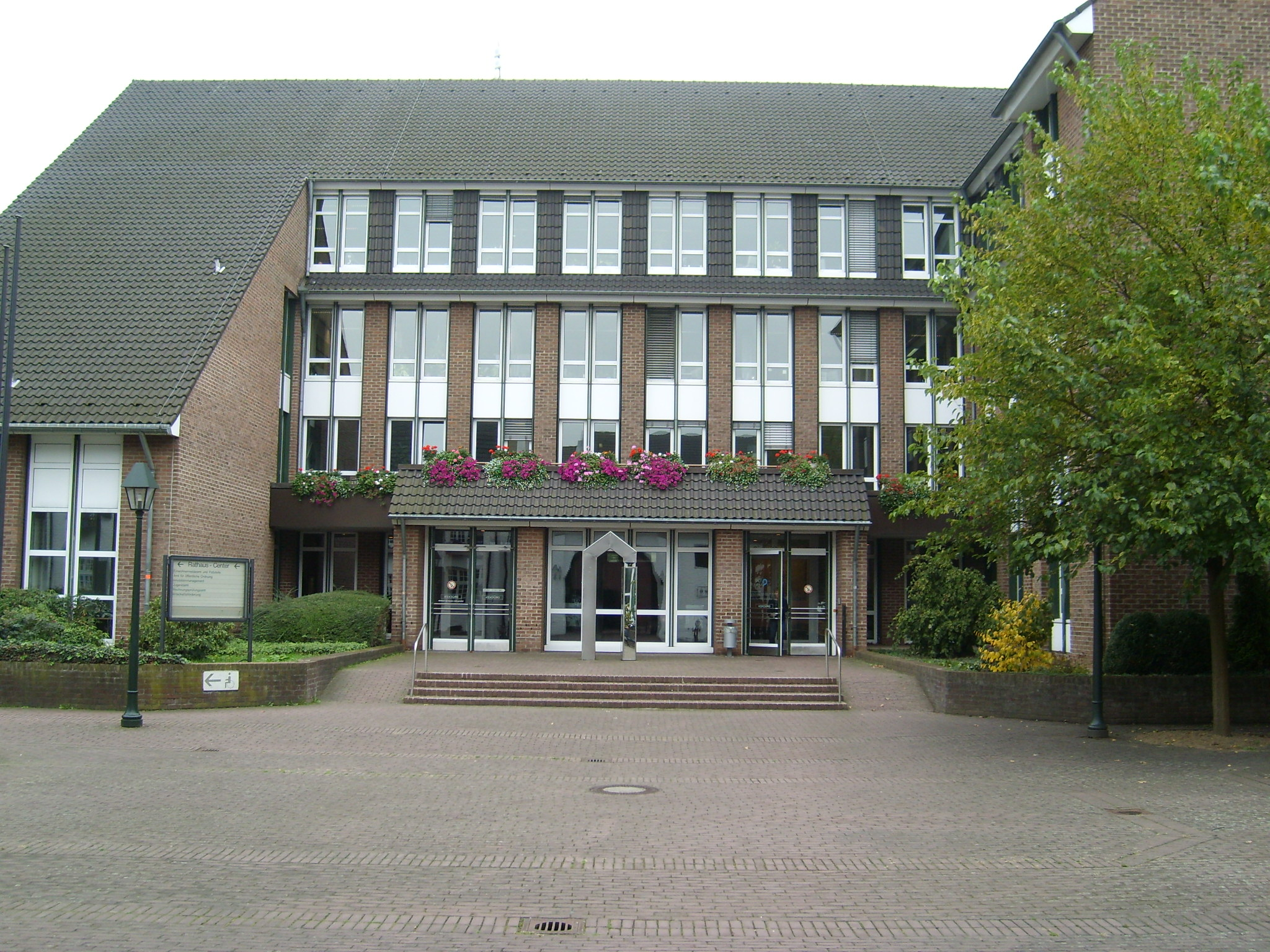 Photograph of the townhall in Pulheim, frontside.